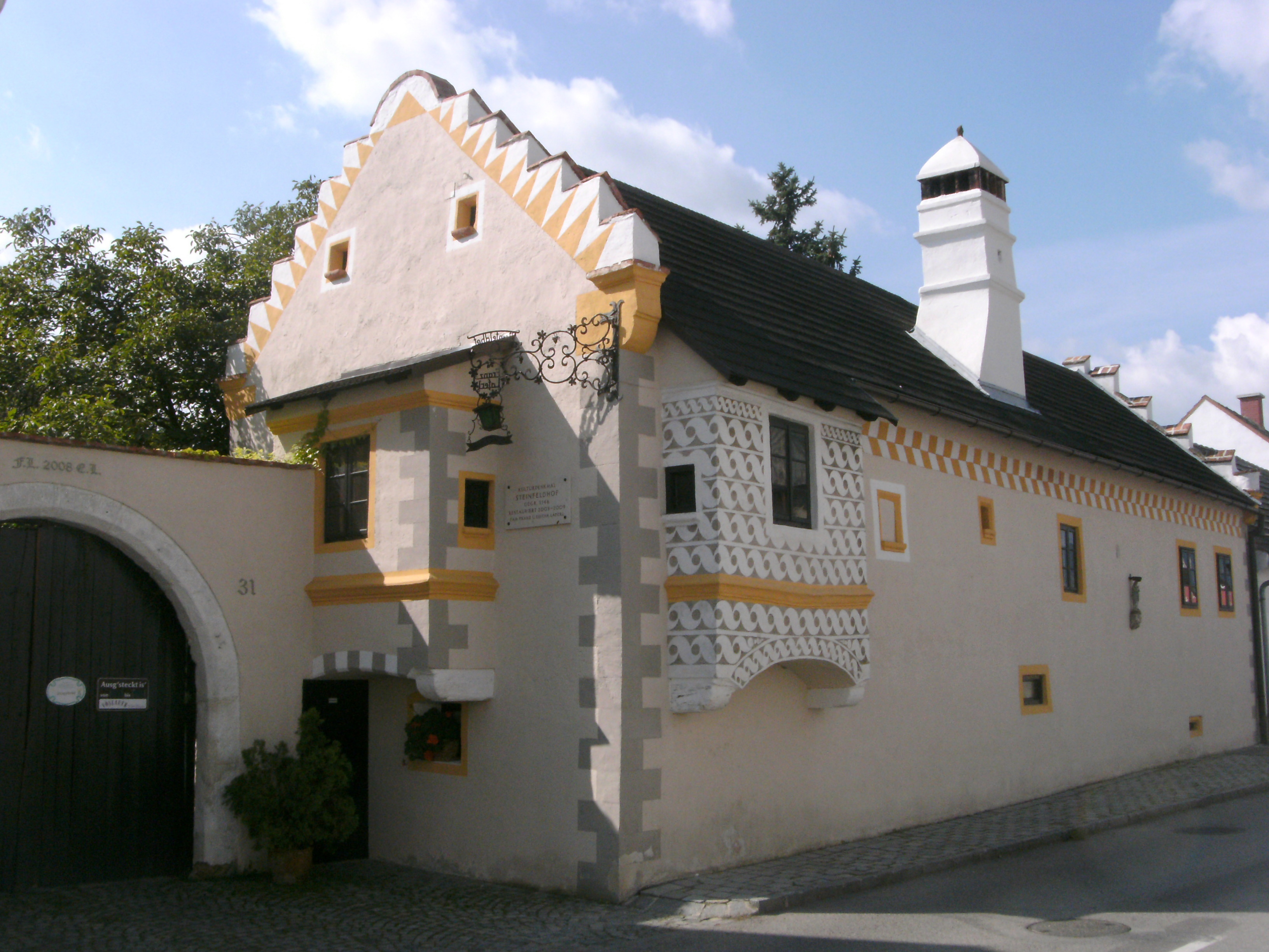 Steinfeldhof in Weikersdorf am Steinfelde, Lower Austria